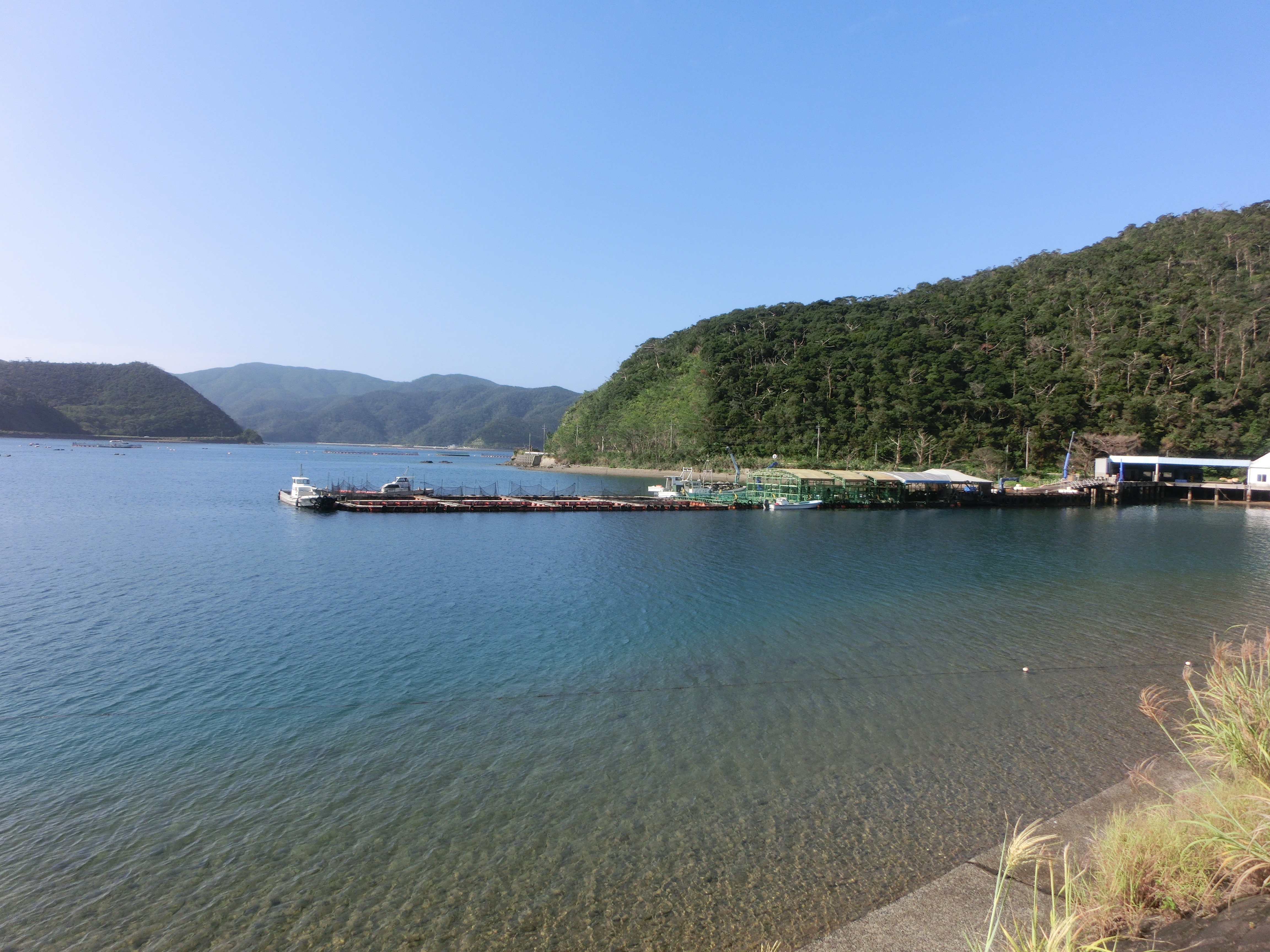 Uken Vilagge Ashiken